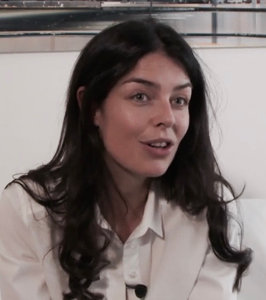 Camille de Peretti at Librairie Mollat